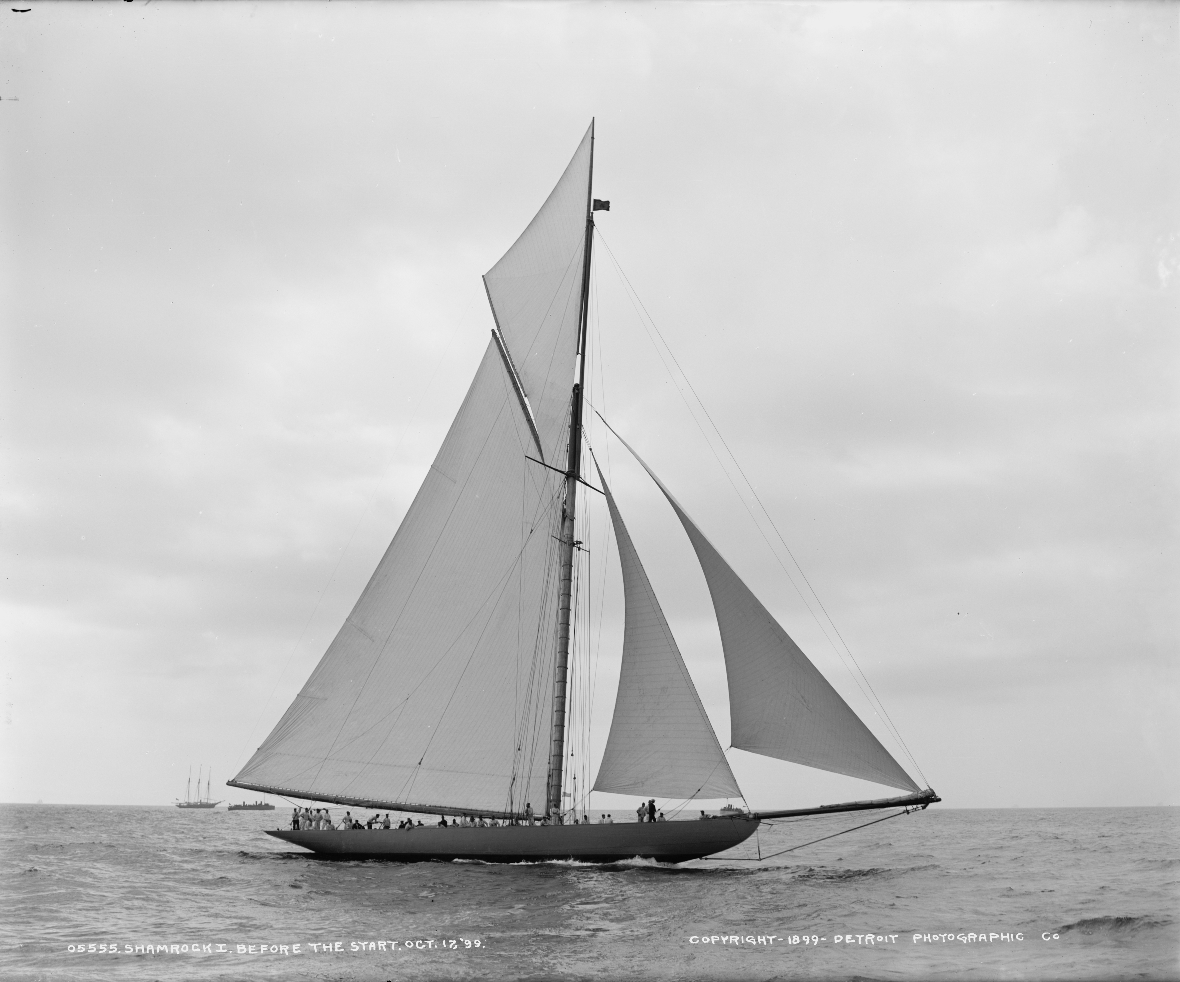 Sir Thomas Lipton's America's Cup challenger ShamrockI before the start, October 17th, 1899